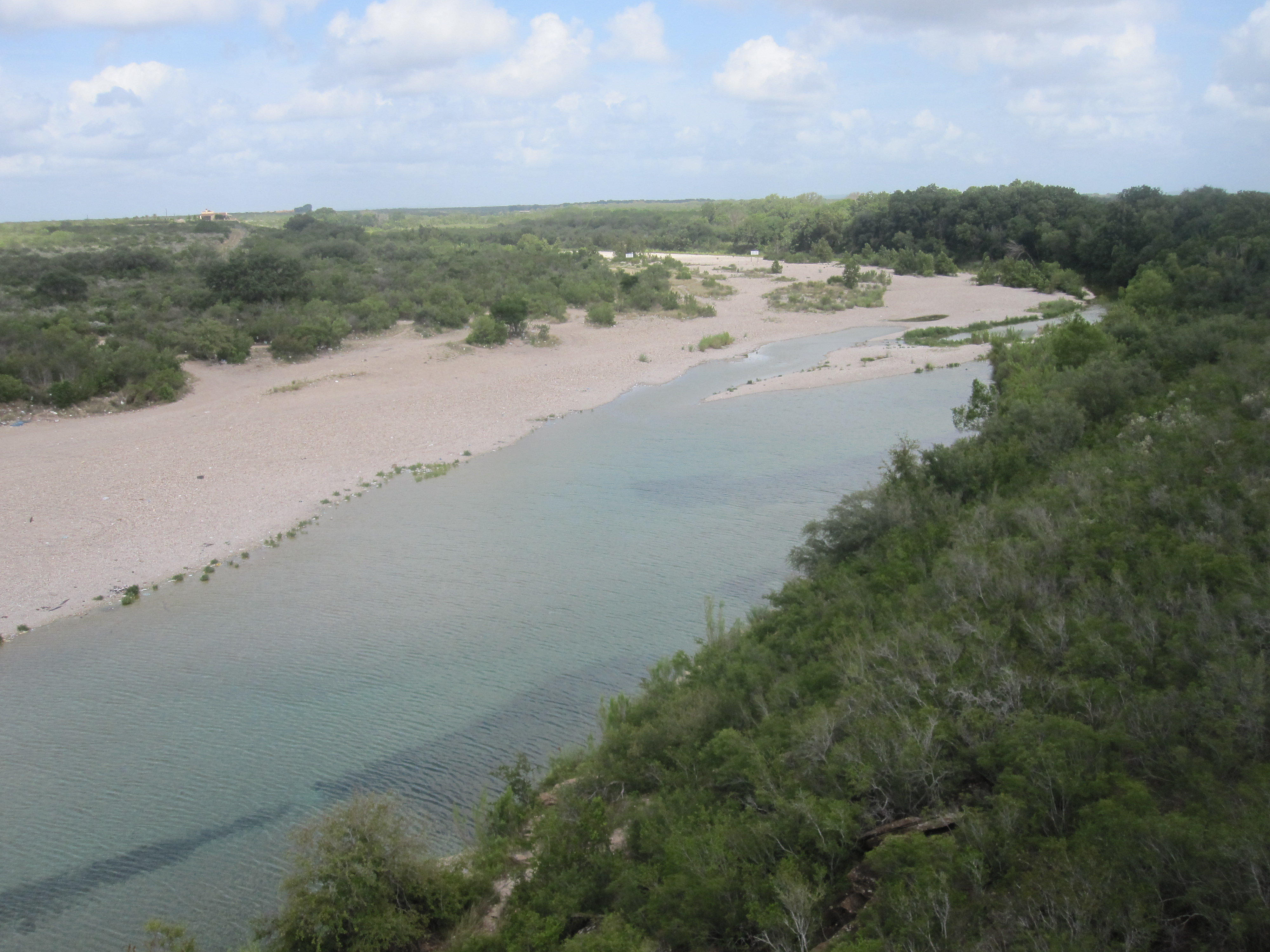 I took photo with Canon camera between La Pryor and Uvalde, TX.